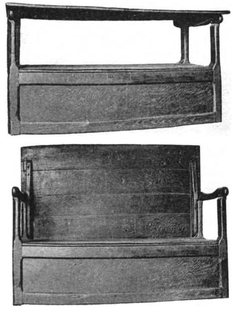 Seventeenth-century oak monks bench (settle and table combined) In 1905 it belonged to the Rev. F. Meyrick-Jones. Dimensions: Length 54 inches, Height as table 29.5 inches, Width 28.75 inches.